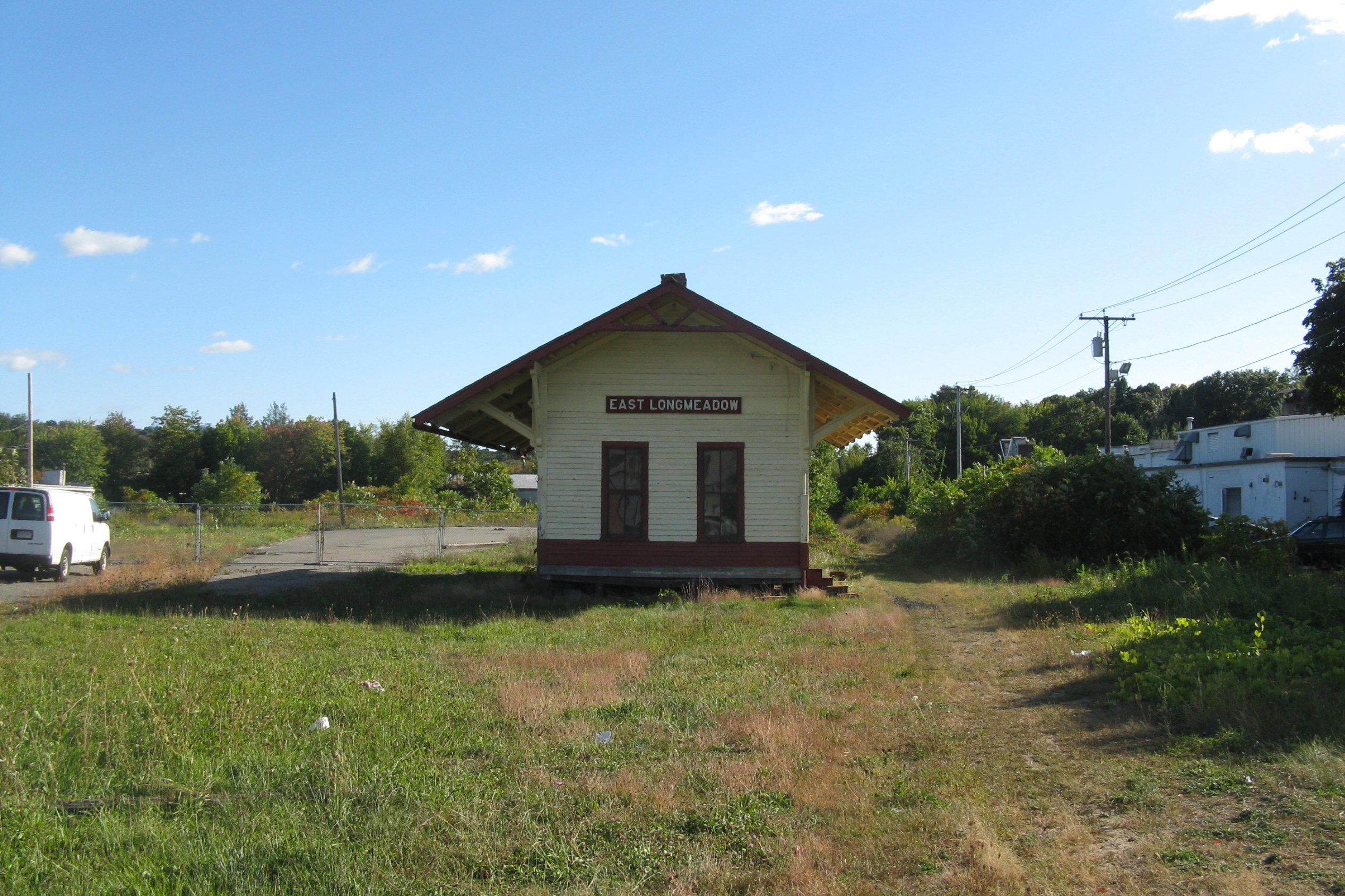 East Longmeadow Depot, East Longmeadow Massachusetts